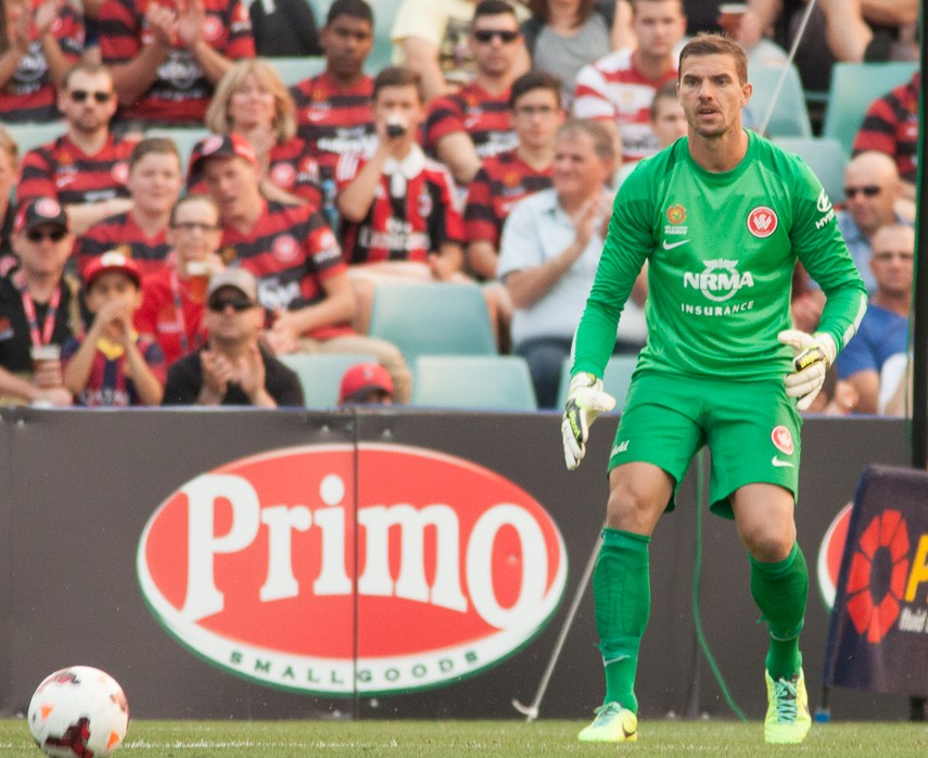 Ante Covic, ever-present 'keeper for the Wanderers